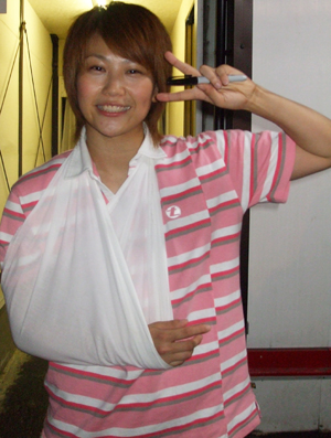 Ayumi Kurihara, Japanese women pro wrestler - Photo taken by me on August 4th 2007 at the "LADY's RING Festival" at Shin Kiba 1st Ring in Tokyo, Japan. At the time taken Ayumi was out of action with a broken clavicle.